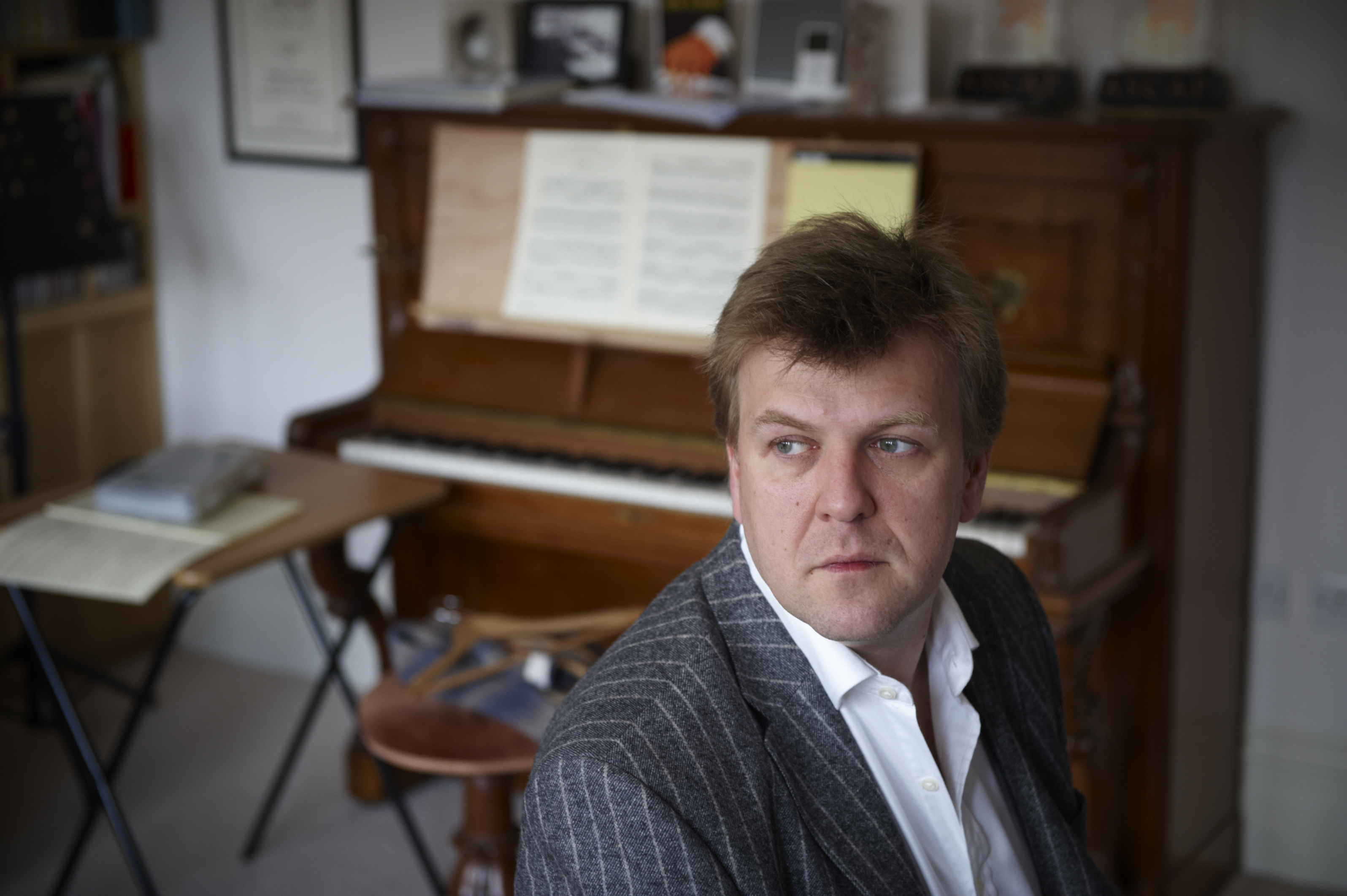 Matthew Strachan in 2010